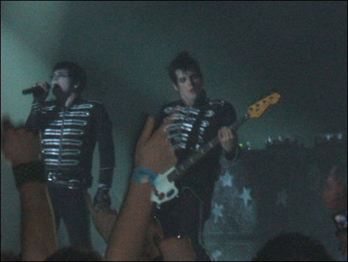 a photograph taken at a my chemical romance tour gig. 2007